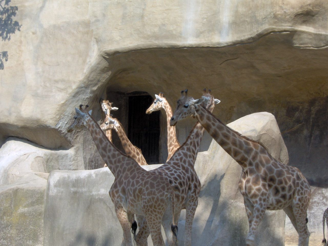 Kordofan Giraffes, Paris, Vincennes